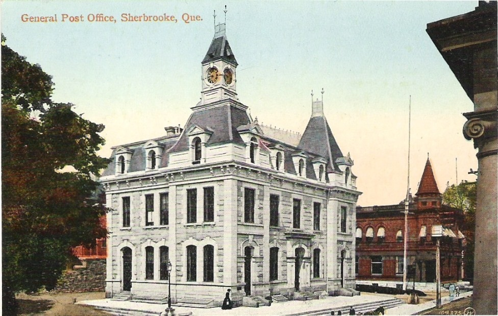 General Post Office, Sherbrooke